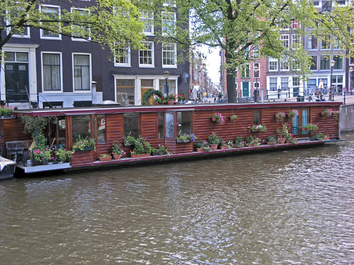 It shows an example of a suberb houseboat on the canals in Amsterdam.